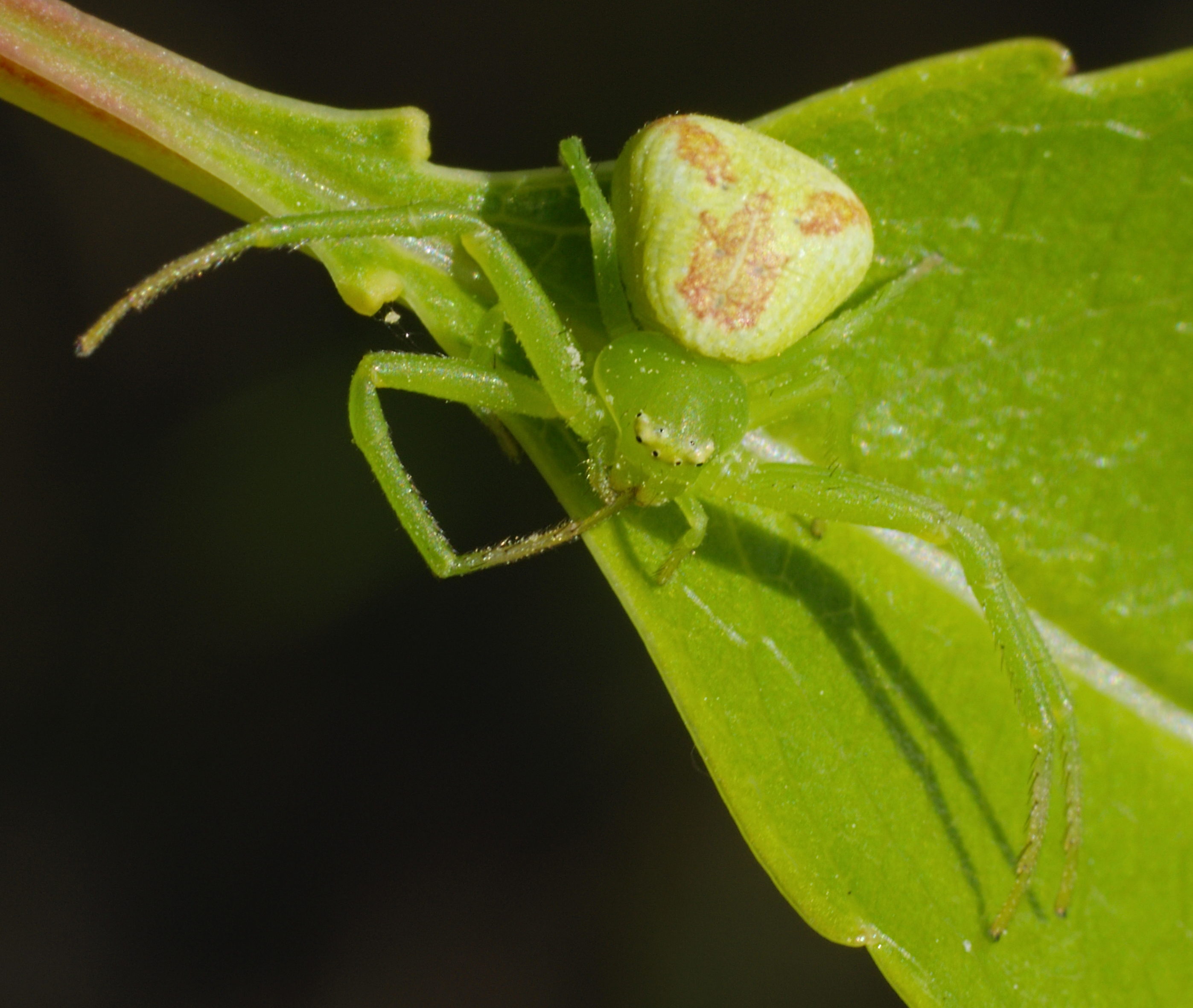 Crapspider - Ebrechtella tricuspidata, female. Taken in the Viernheimer Heide, Viernheim, Hesse, Germany.